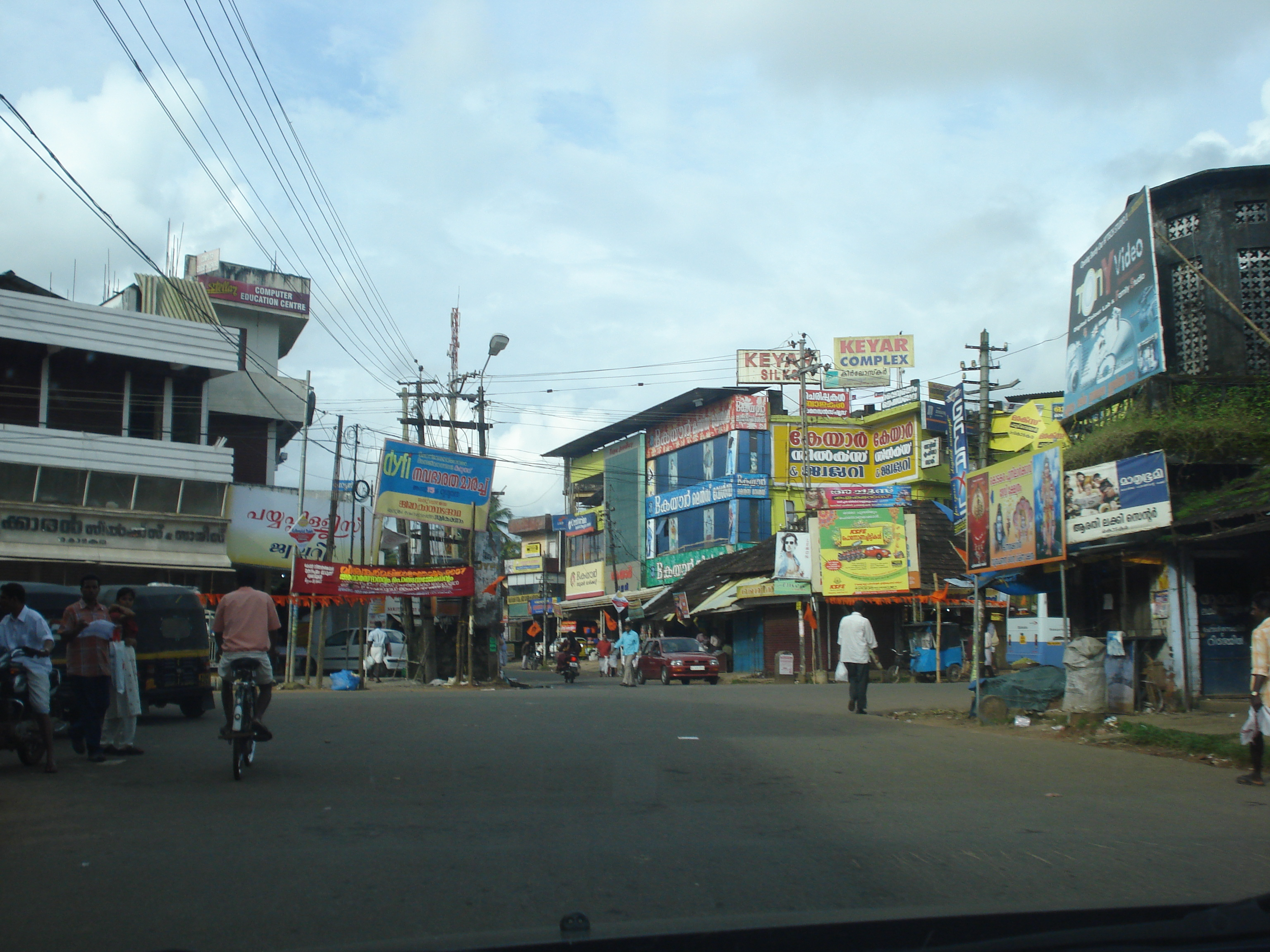 Kodakara junction